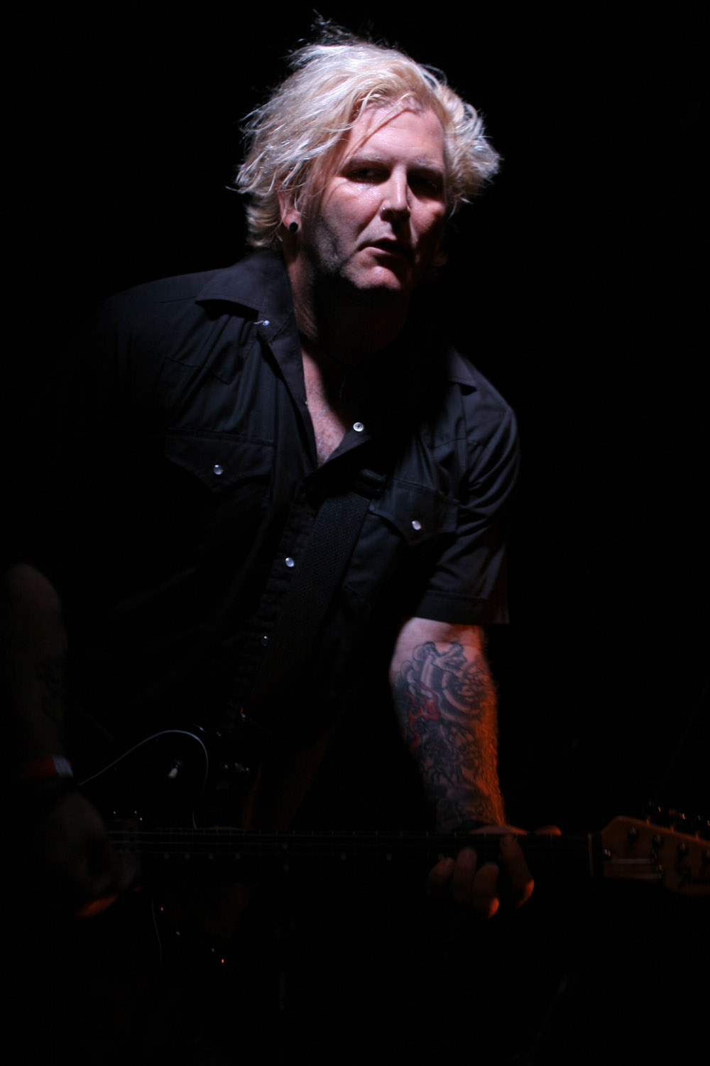 LoC concert